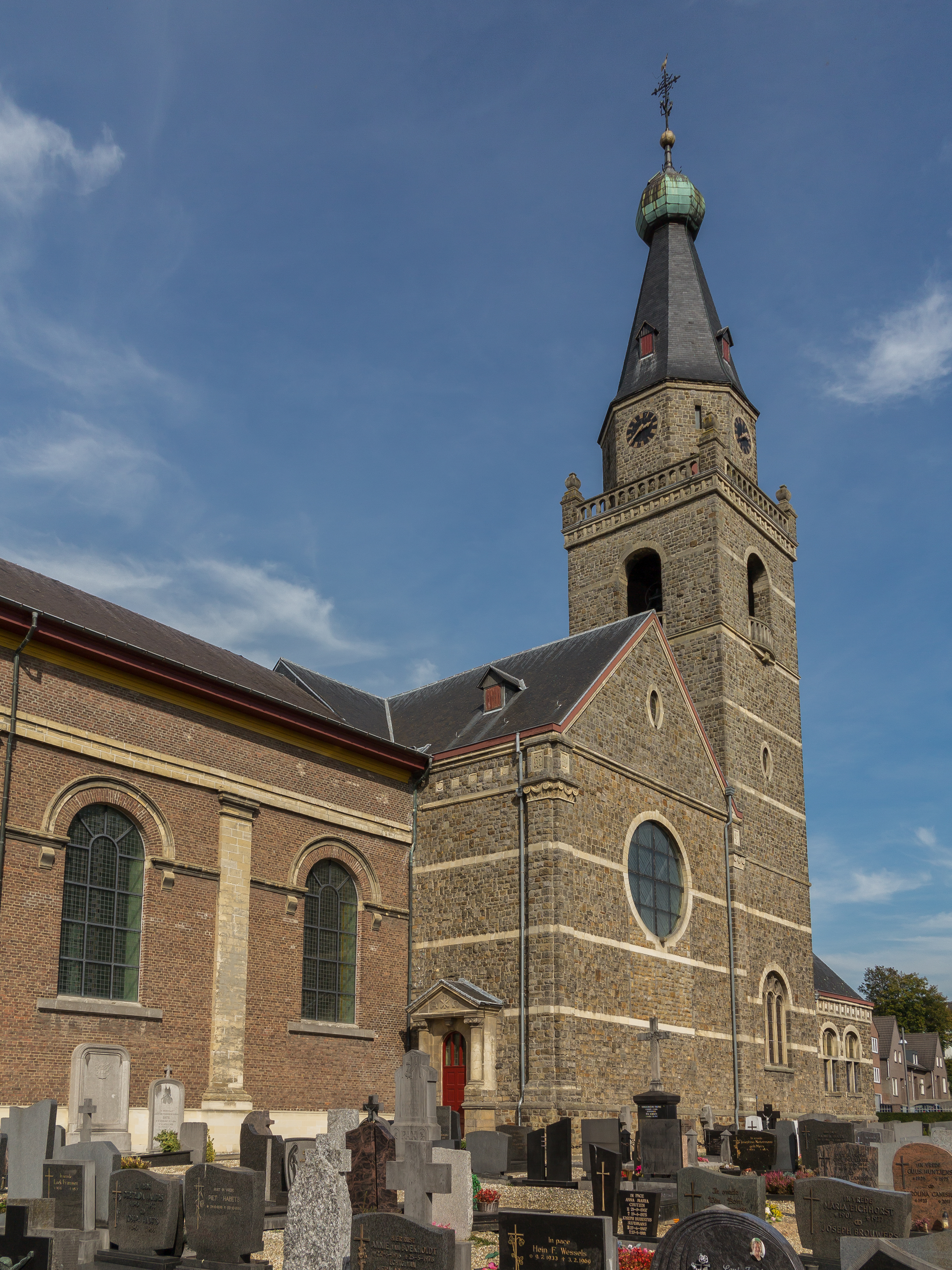 Wijlre, church: de Sint Gertrudiskerk